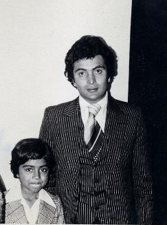 with rishi kapoor